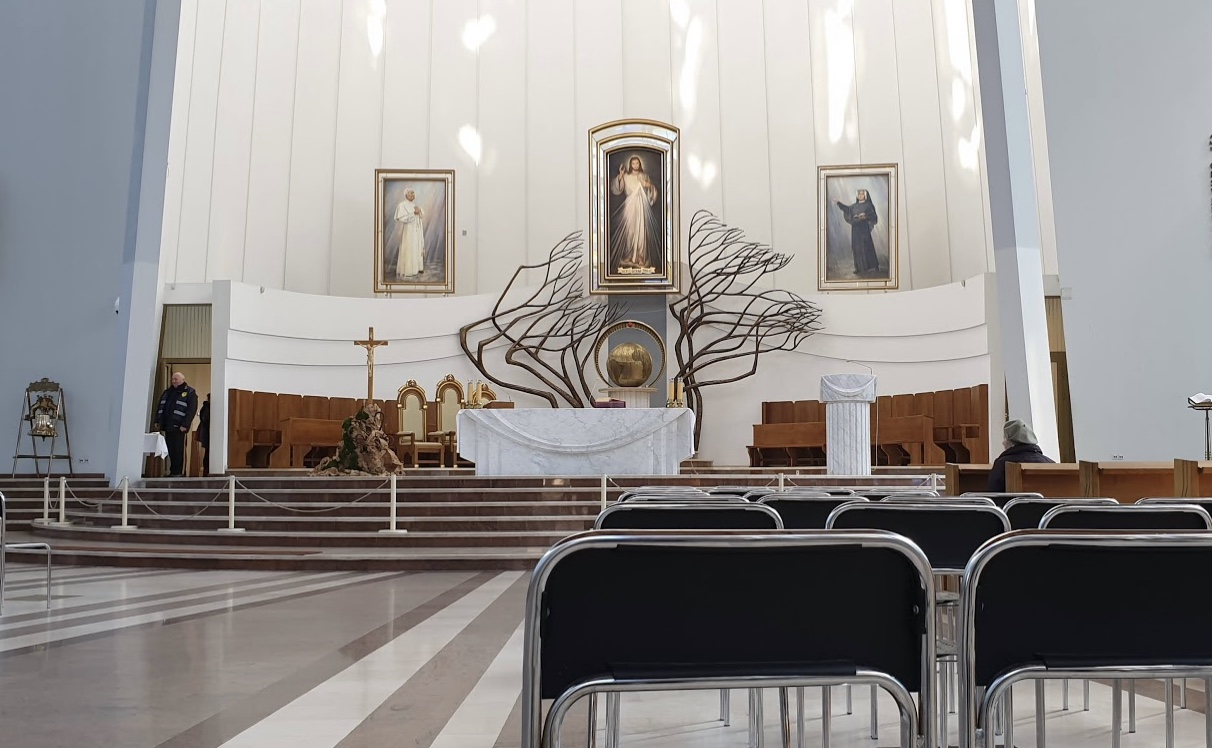 The Divine Mercy Shrine in Kraków